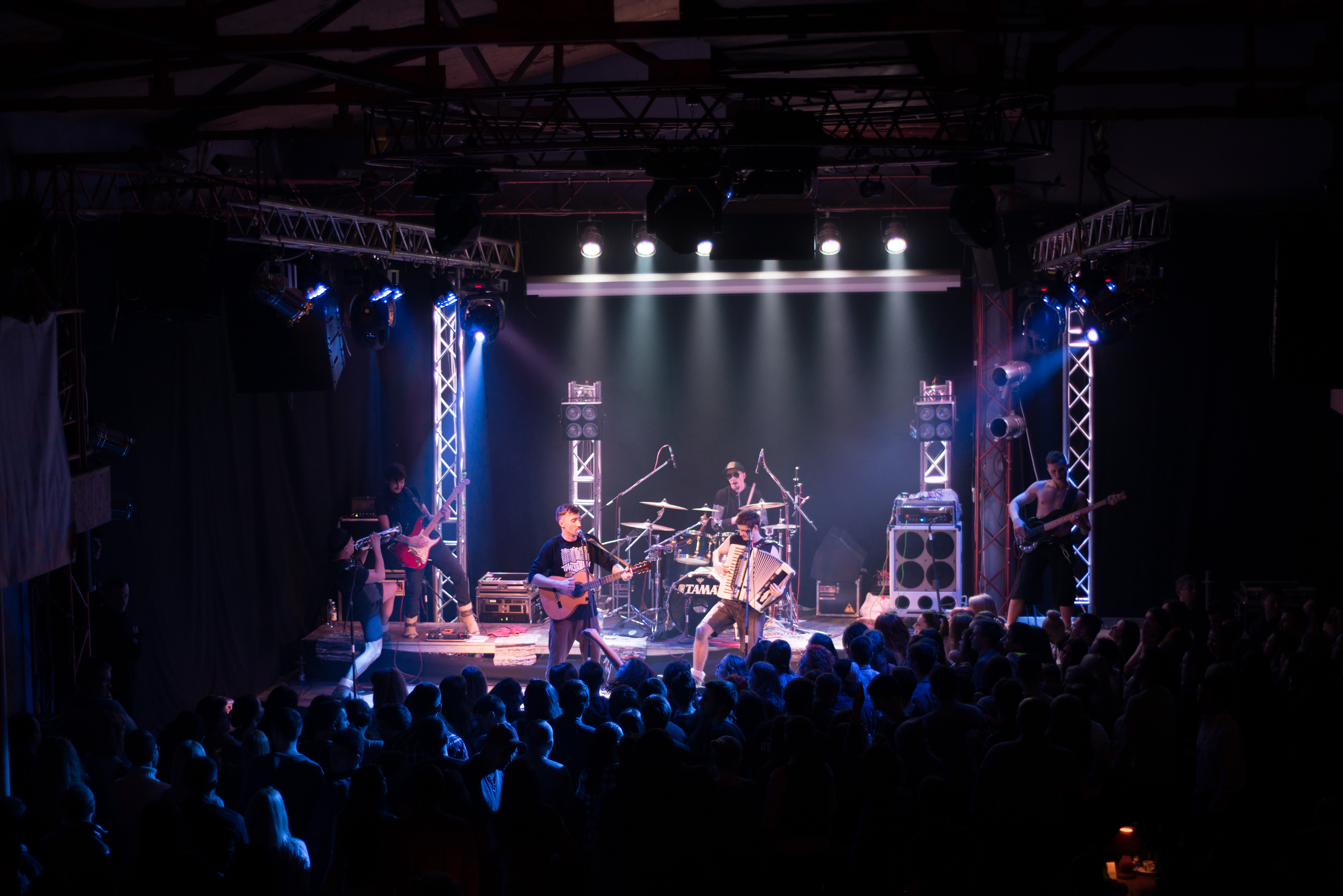 trystavisim in phantom, live